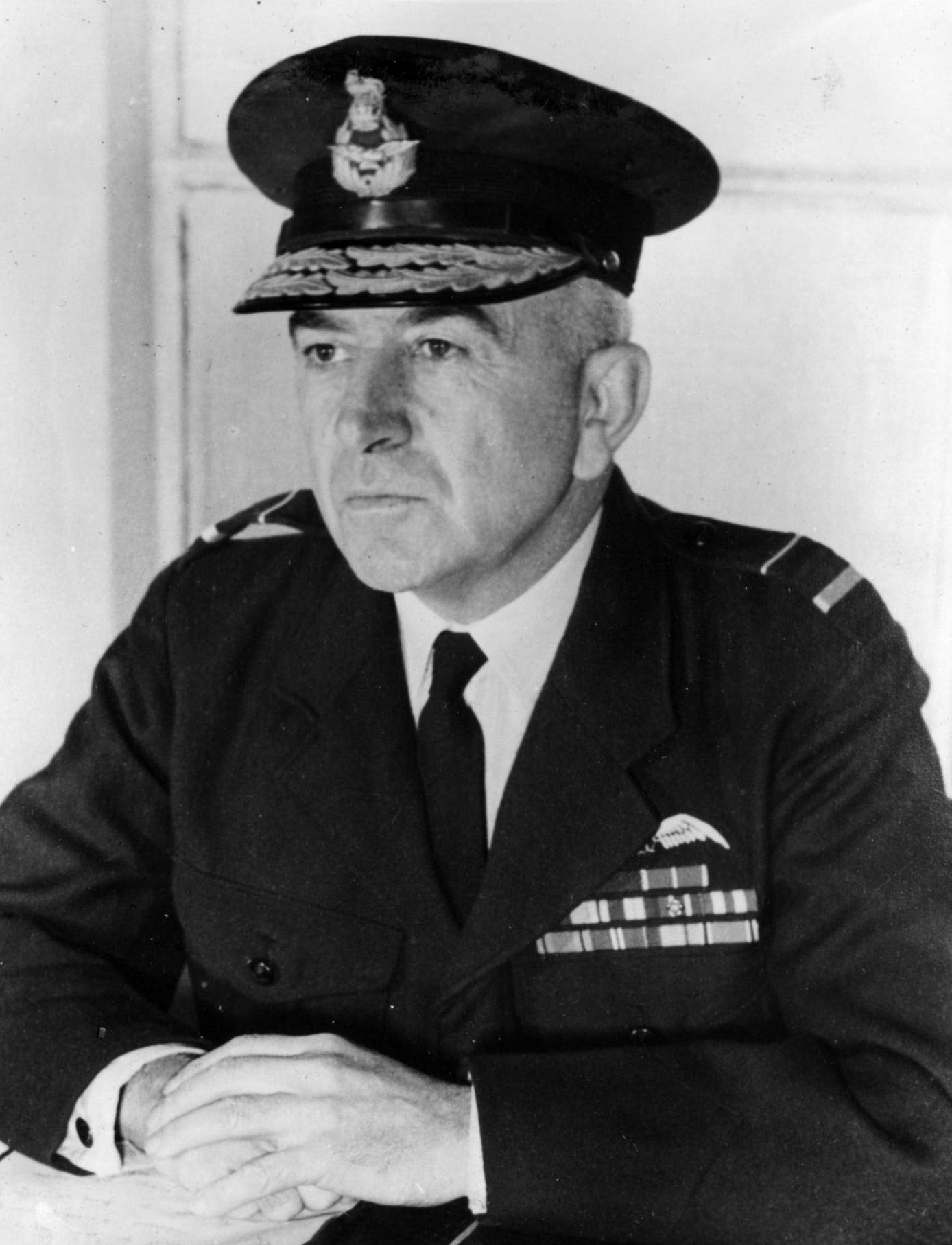 Air Vice Marshal John McCauley CB, CBE, Air Officer Commanding RAAF Eastern Area.